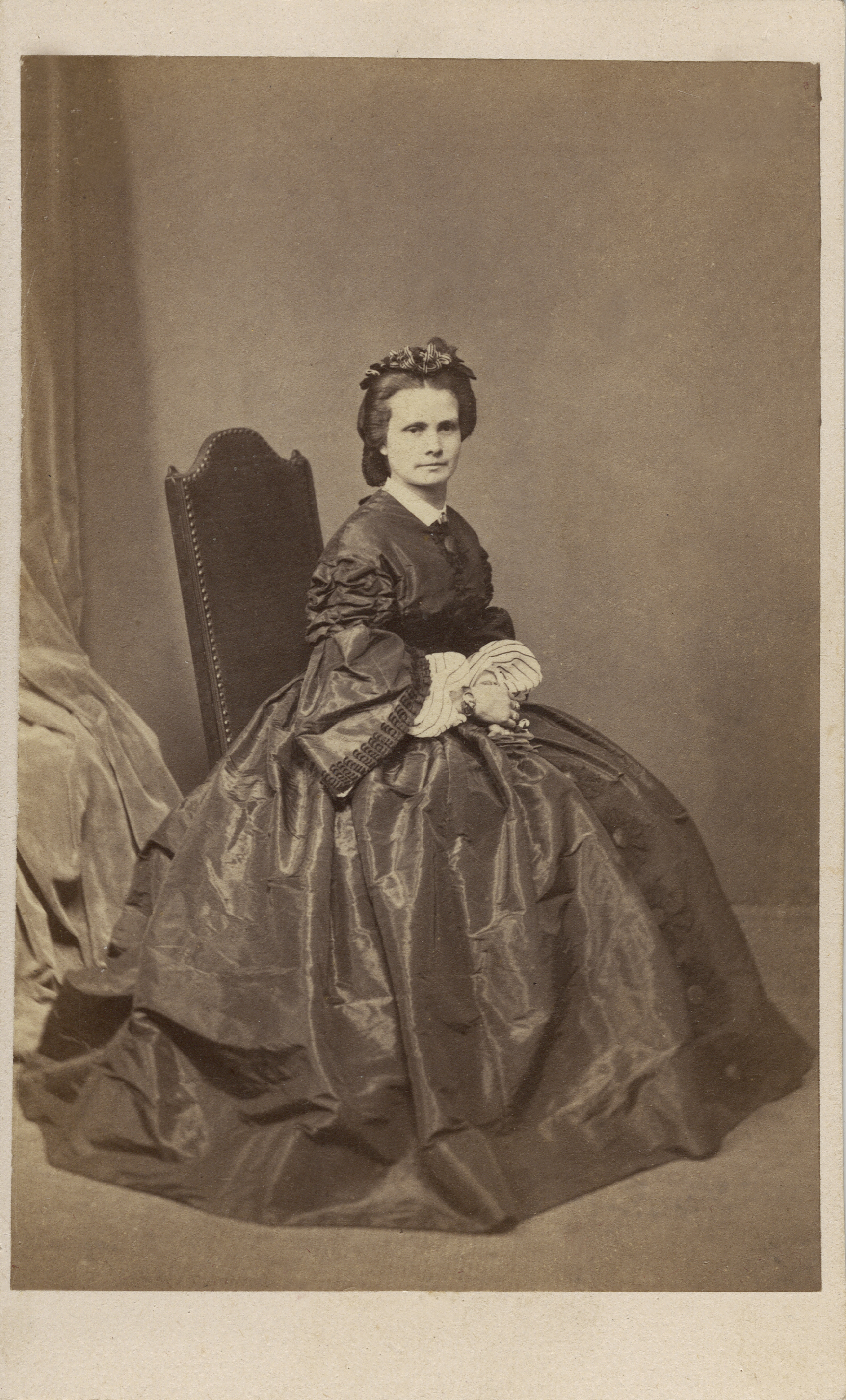 Henrietta Dugdale as a single woman c1845